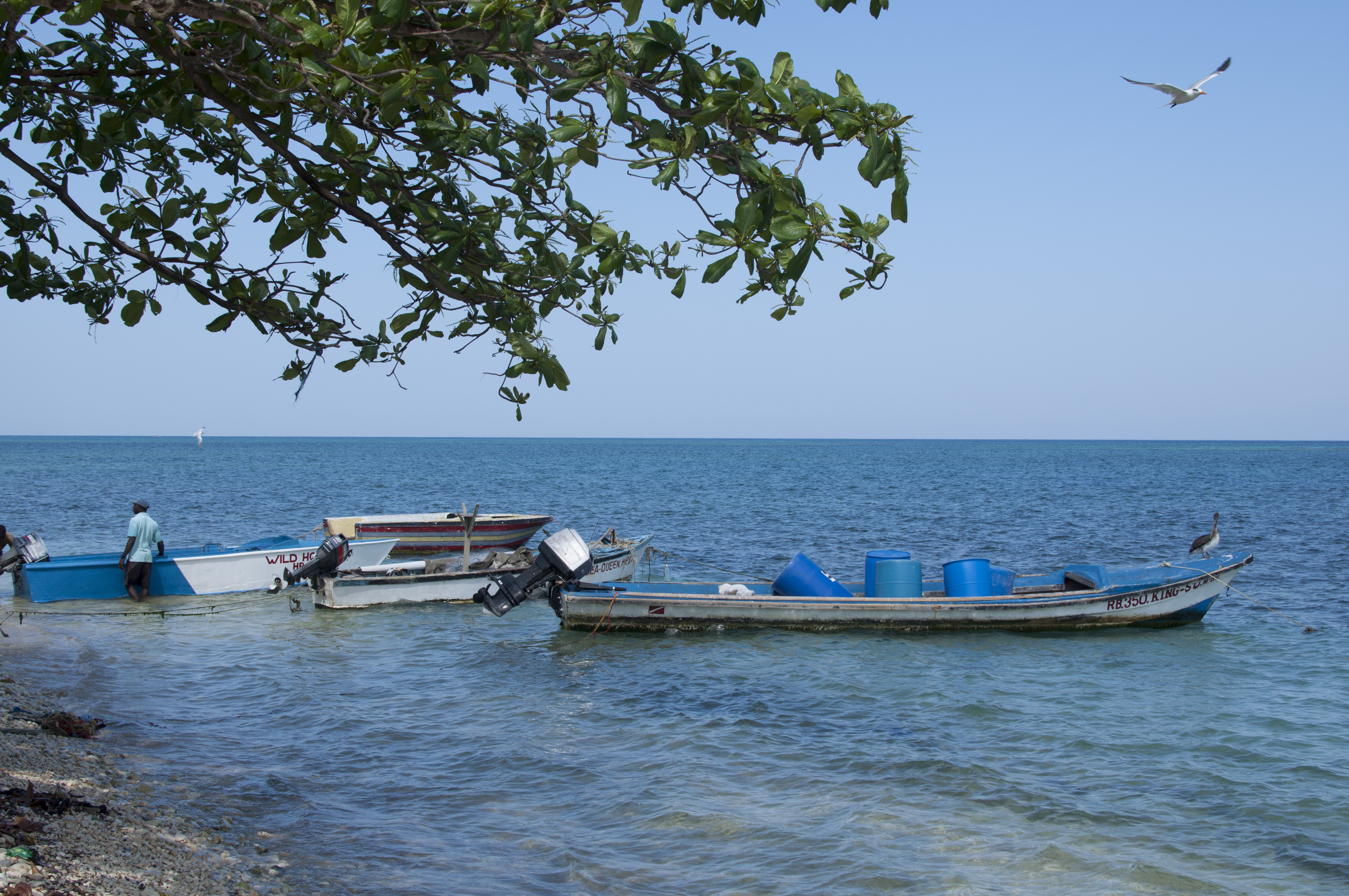 Hopewell Hanover Jamaica fishermen 2 Photo D Ramey Logan